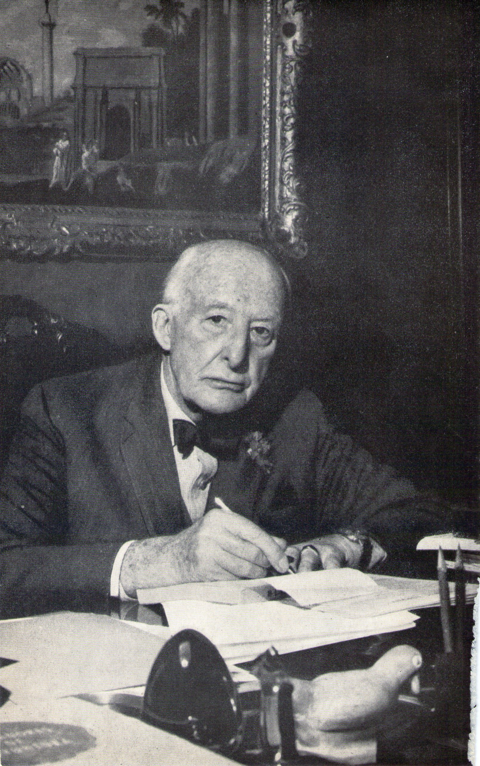 Dr. Alejandro E. Shaw in his later years